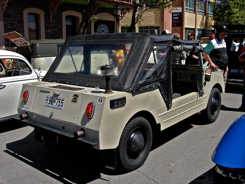 Rear view of a Volkswagen Country Buggy made in Victoria, Australia.